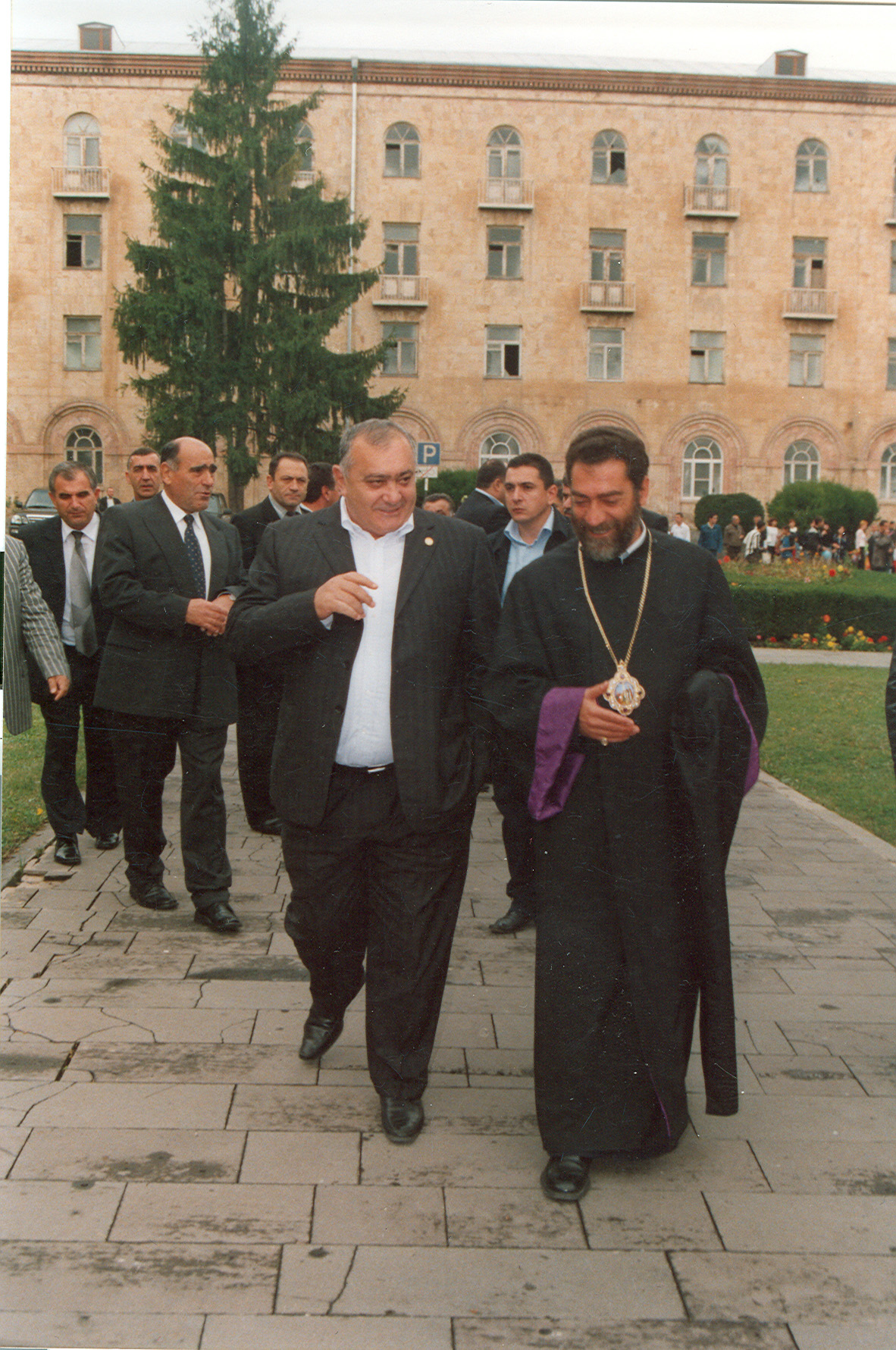 Andranik Margaryan (1951-2007, Prime Minister of Armenia during 2000-2007) and the Primate of the Diocese of Gougark Bishop Sebouh Chouldjian.